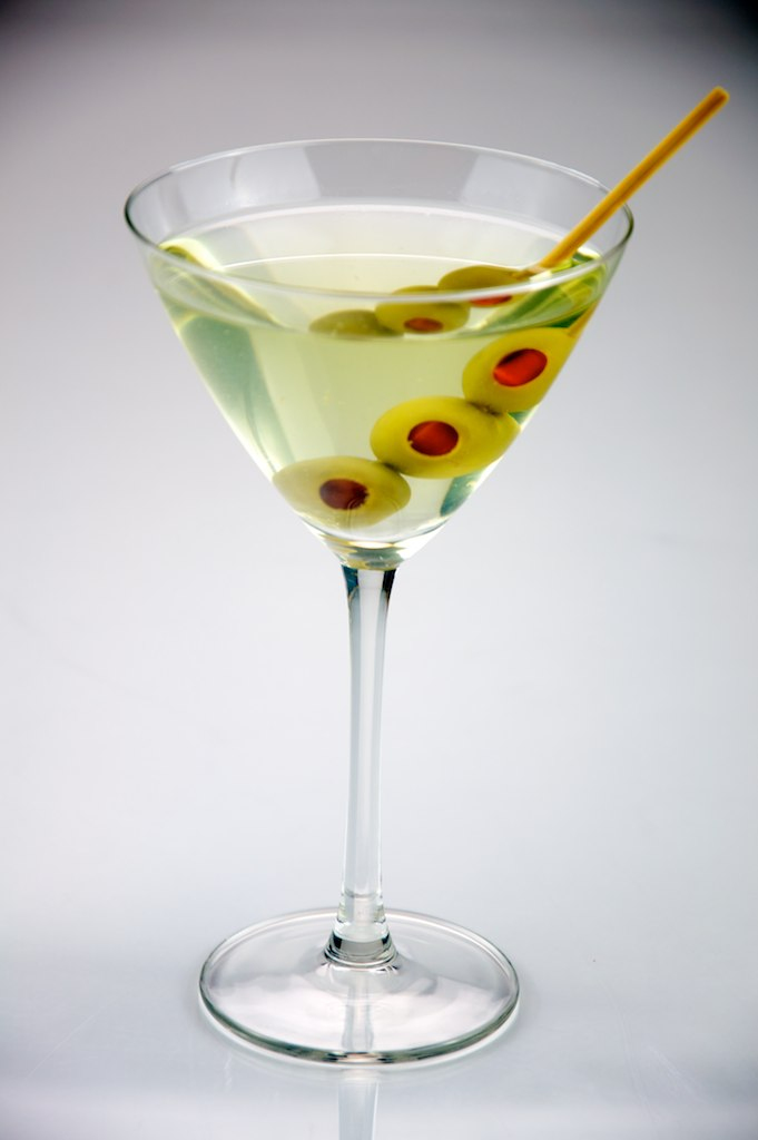 Triple olive Dirty Martini shot on a white background.